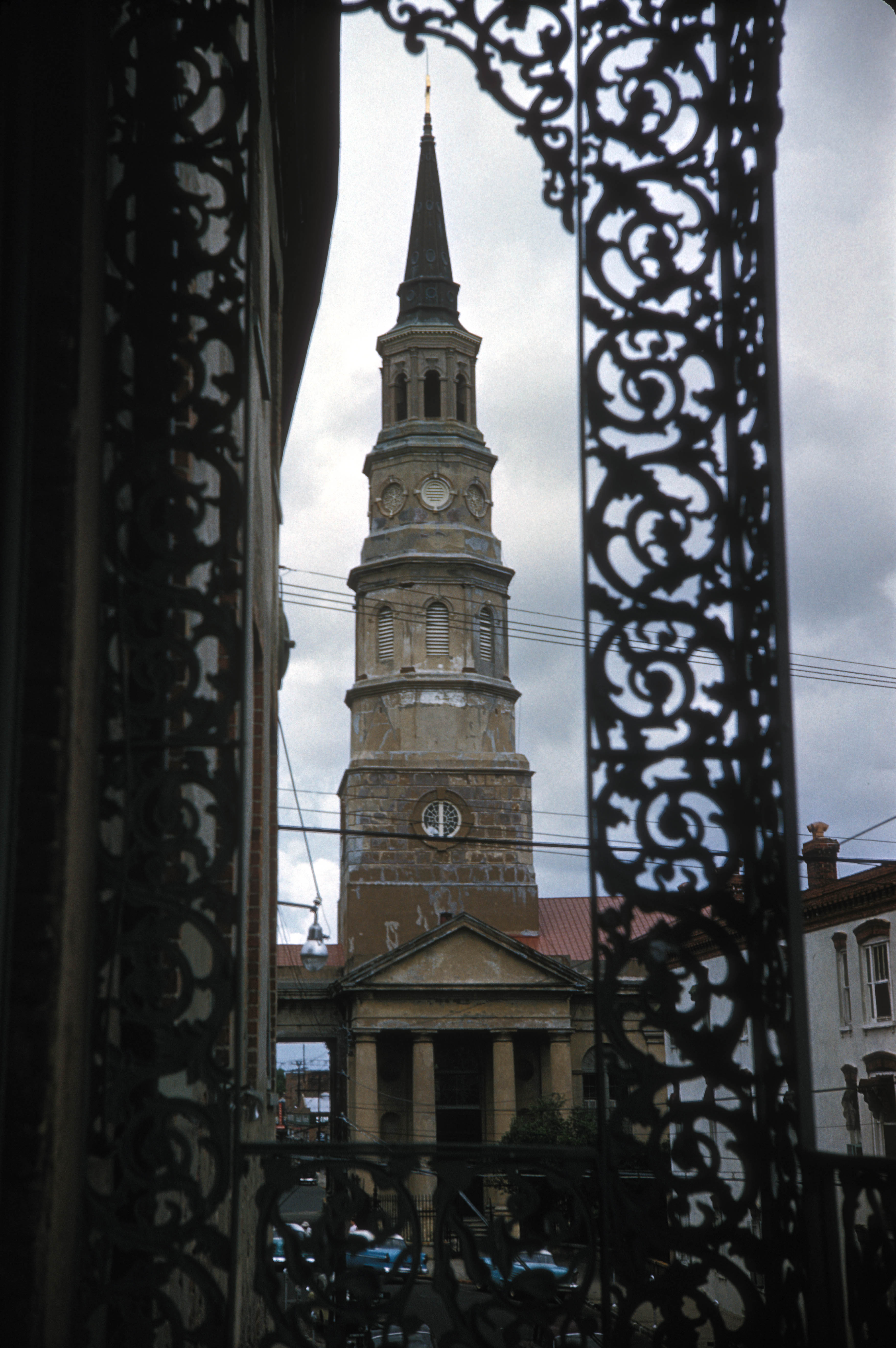 FOUNDED IN 1670 BUT THE CHURCH WAS BUILT IN 1836 ; THIS PICTURE IS TAKEN FROM THE BALCONY OF THE DOCK STREET THEATER